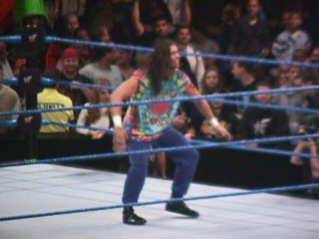 WWF (WWE) Smackdown Stevie Richards ready for a fight.